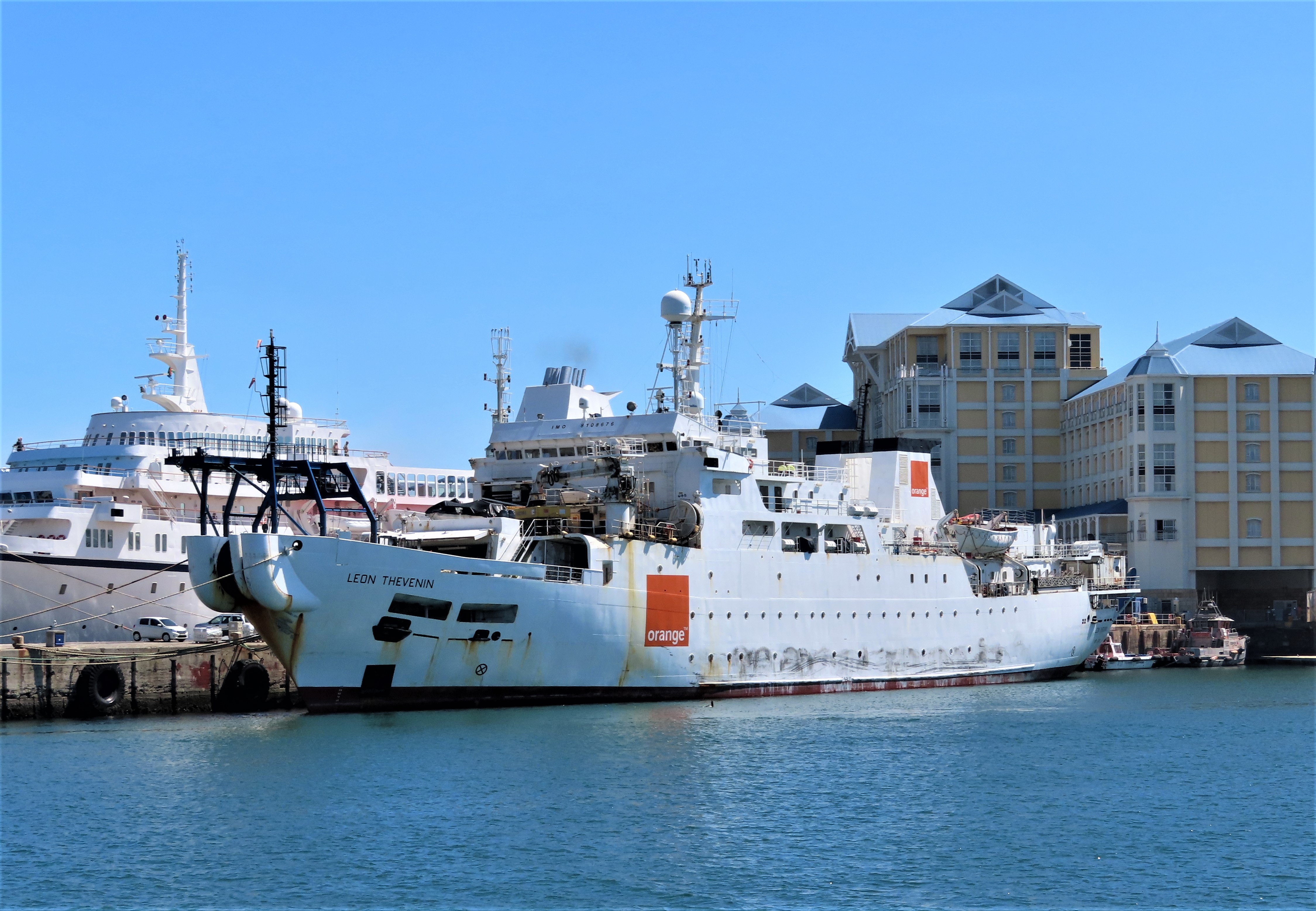 The French cable layer Léon Thévenin in Cape Town, March 2019